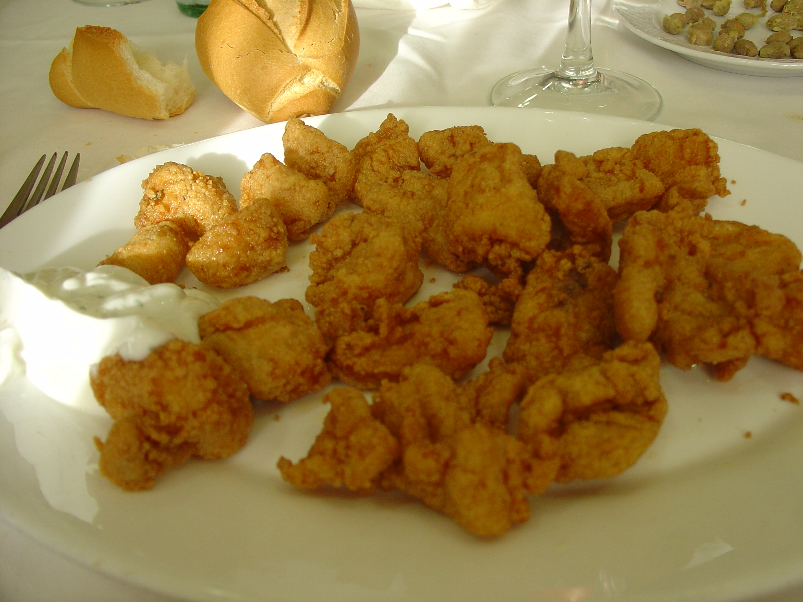 A typical Spanish fried fish (Pescado Adobado)